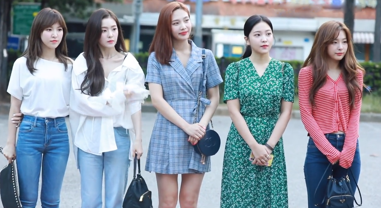 Red Velvet arriving at KBS Music Bank on August 17, 2018.